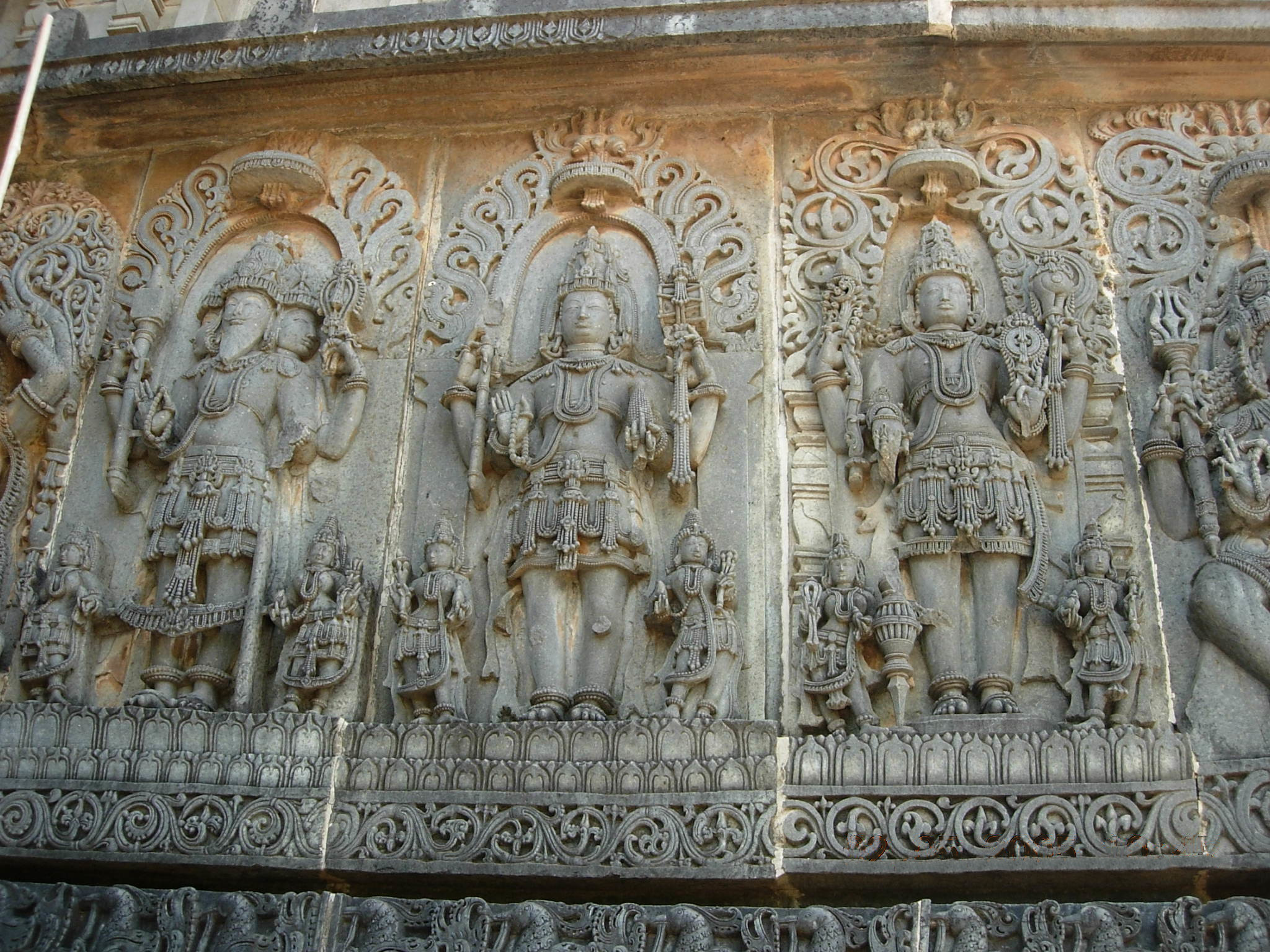 The Hindu Trinity - Brahma, Siva, Vishnu - Hoysaleswara temple, Halebid Photo taken by self.